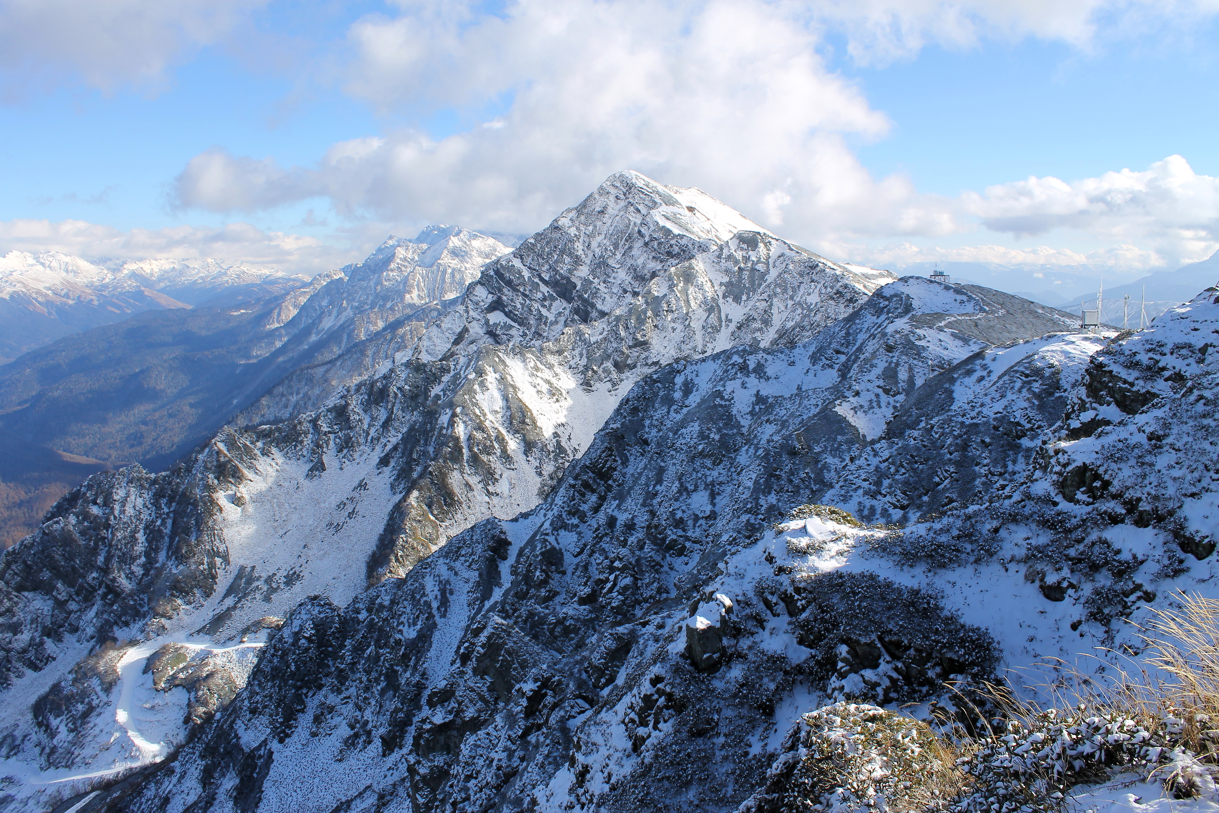 The Aibga Ridge is a mountain ridge near Krasnaya Polyana in Sochi National Park, Krasnodar Krai, Russia. It contains the Rosa Khutor Alpine Resort which stands at the ridge This image is related to the protected area of Russia number 2300430